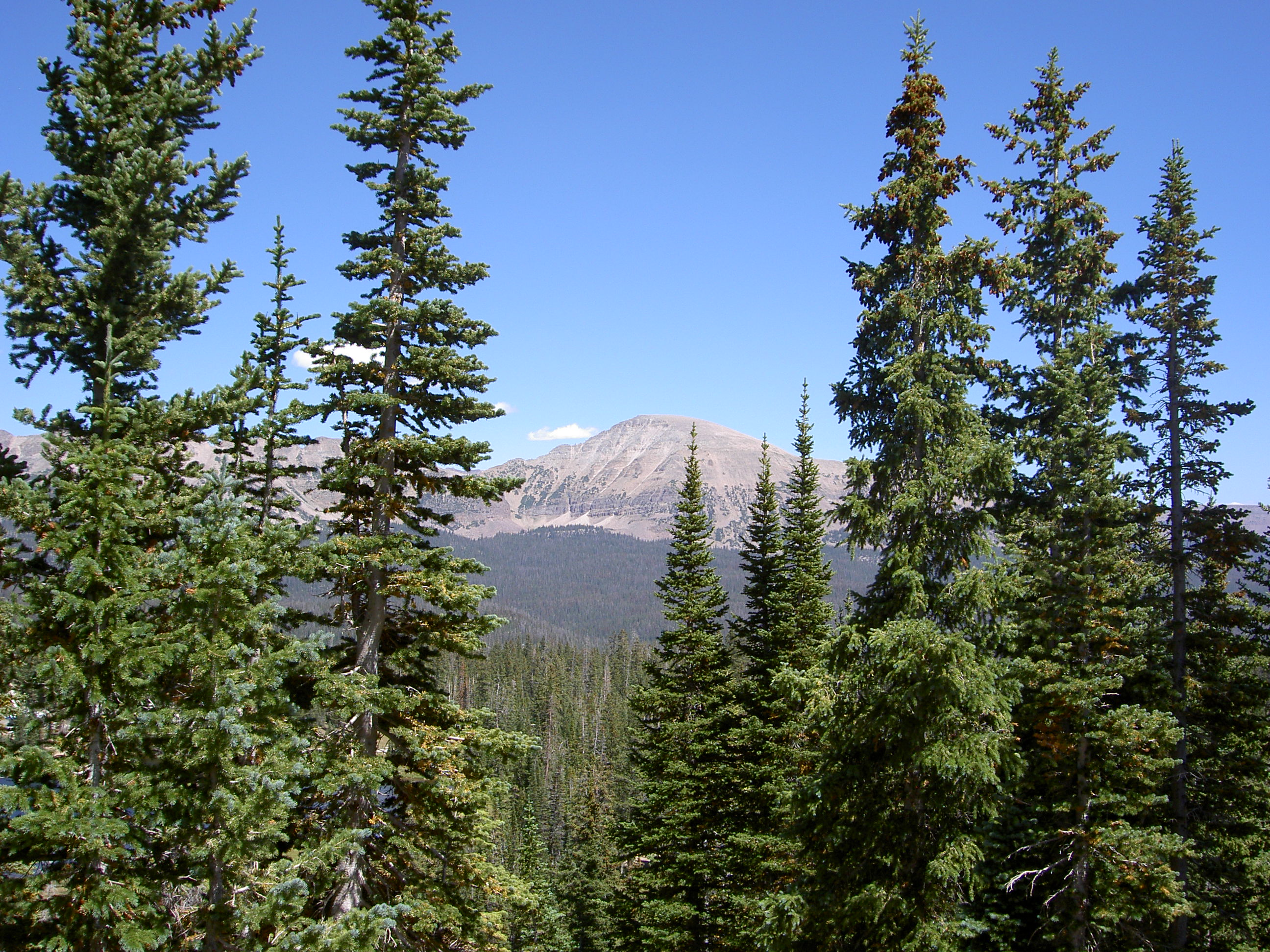 Abies lasiocarpa subsp. bifolia and Picea engelmannii, Mount Agassiz, Uinta Mts., Utah.